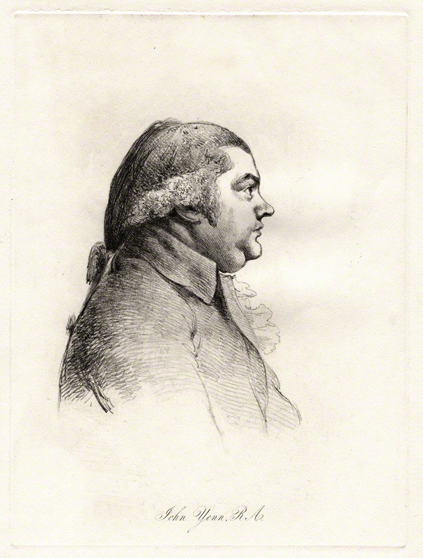 John Yenn by William Daniell, after George Dance, soft-ground etching, (17 November 1793) 10 3/4 in. x 8 in. (272 mm x 202 mm) plate size; 17 1/2 in. x 10 7/8 in. (444 mm x 276 mm) paper size. Purchased, 1908. Reference Number: NPG D12111